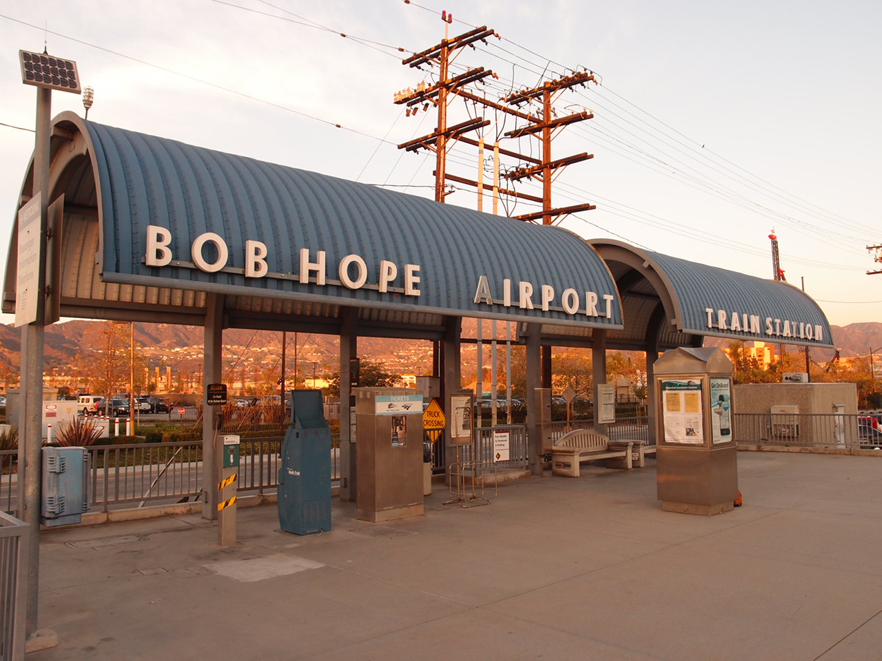 Burbank-Bob Hope Airport train station — a Metrolink and Amtrak station, next to Bob Hope Airport in the southeastern San Fernando Valley, in Burbank, California. Serving the Metrolink Antelope Valley Line and Metrolink Ventura County Line, to Downtown Los Angeles.